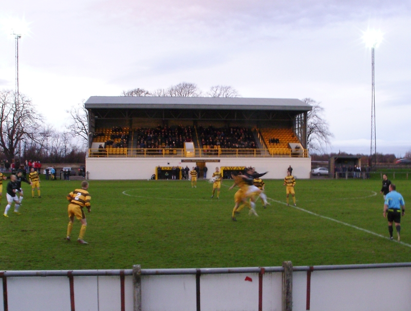 Mosset Park, a football stadium in Forres, Scotland. Home of Forres Mechanics F.C.